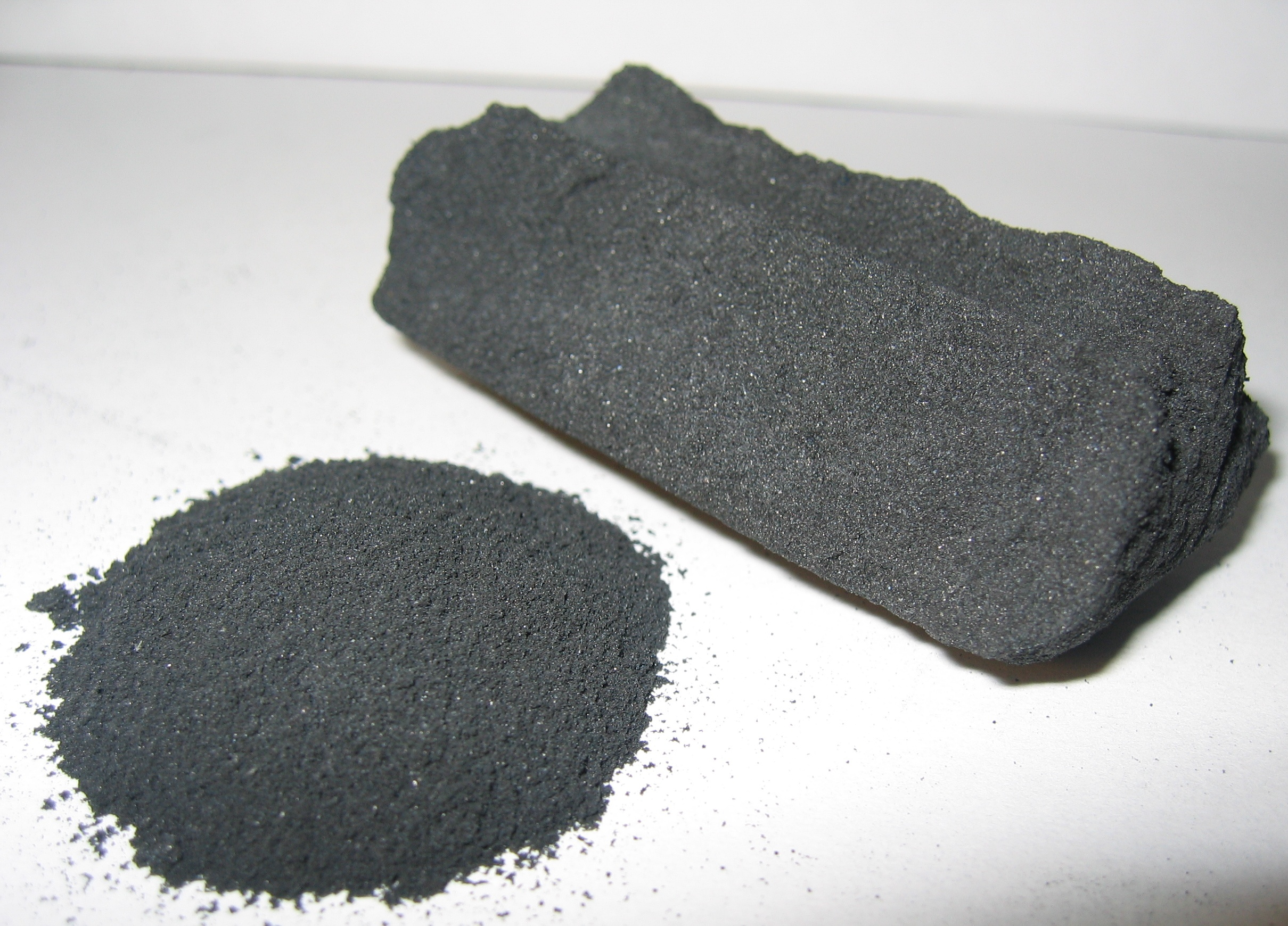 Activated carbon both in powder and block form